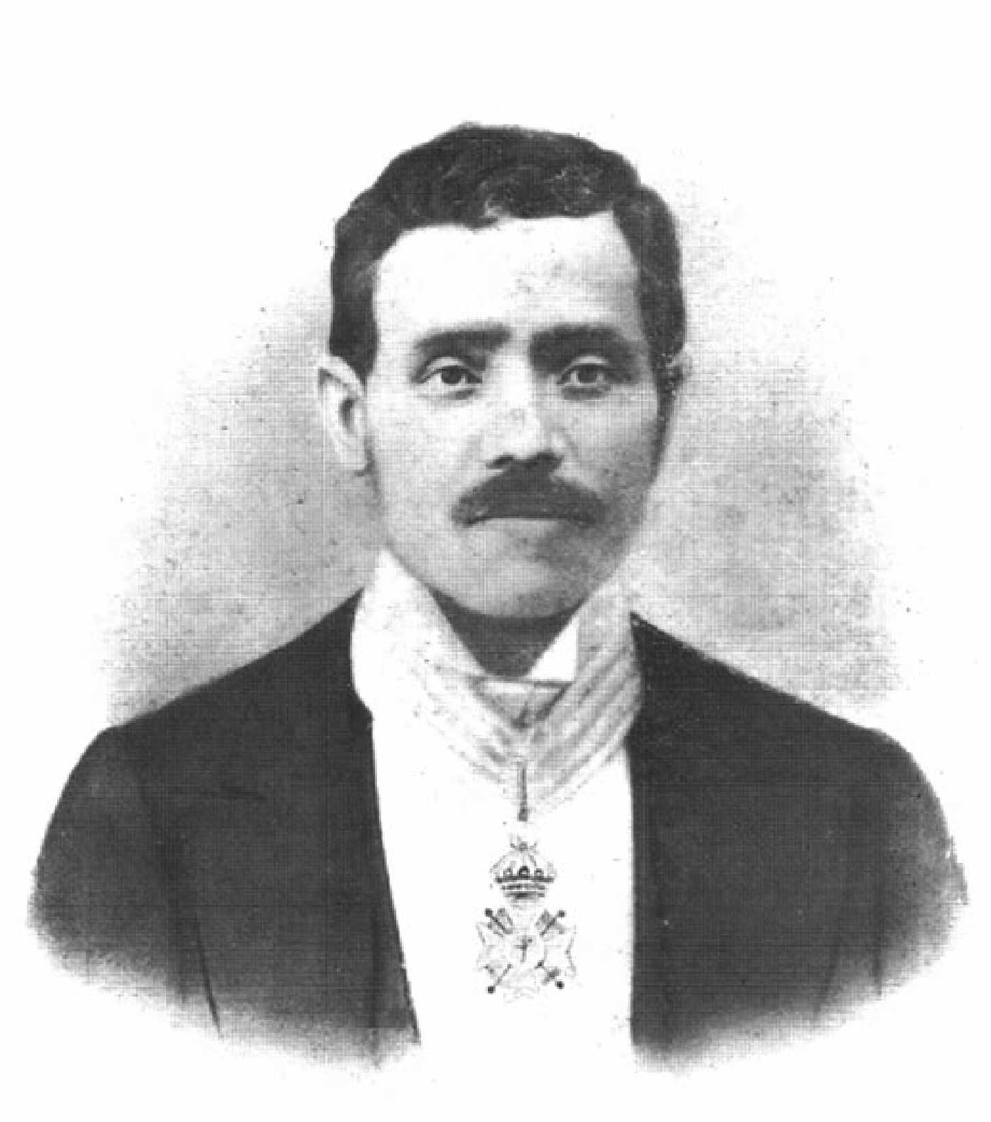 Joseph Nāwahī wearing the Royal Order of Kalakaua.